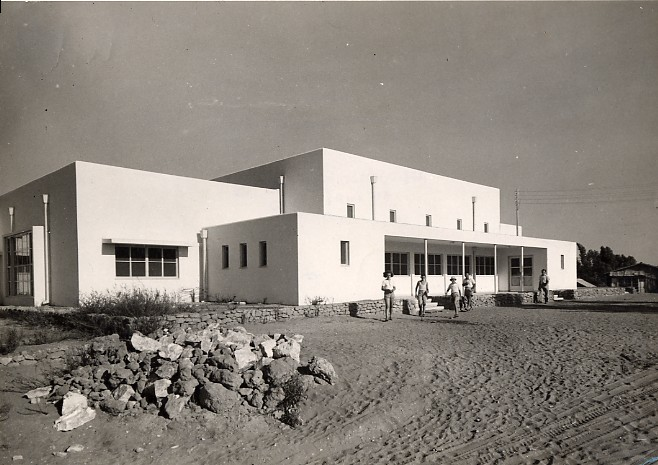 The dining room in Kibbutz Givat Hashlosha, Architecture of Israel